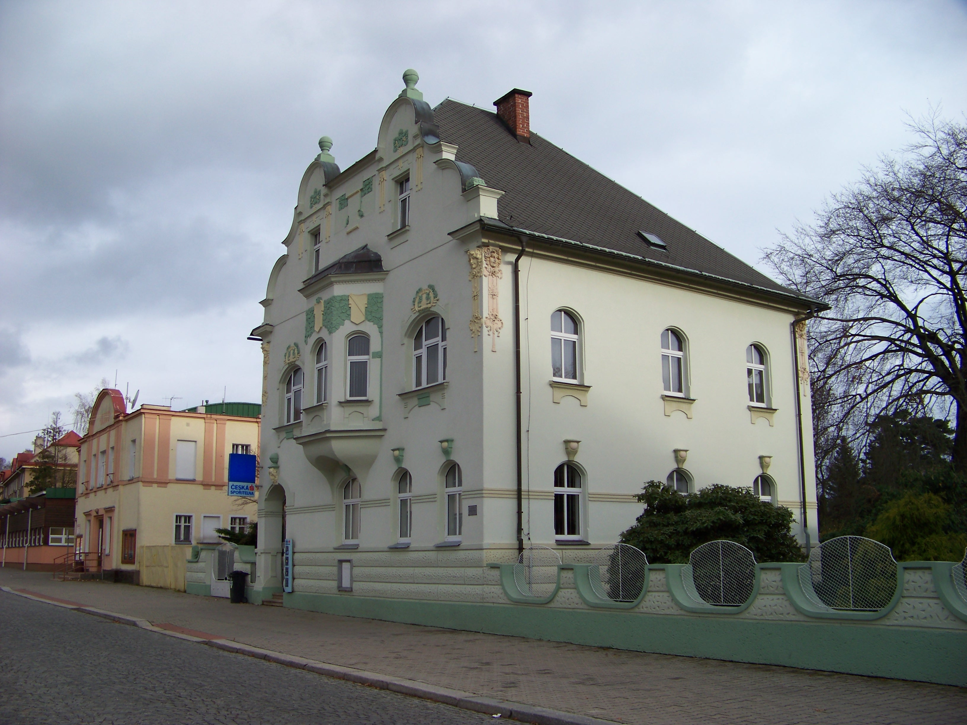 Chrastava-Chrastava I, Liberec District, Liberec Region, Czech Republic. Turpišova 408, 236.